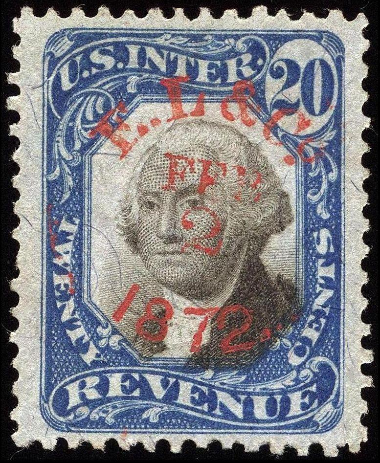 Image of Washington revenue stamp, 20-cents, issue of 1872 (Scotts# R111)